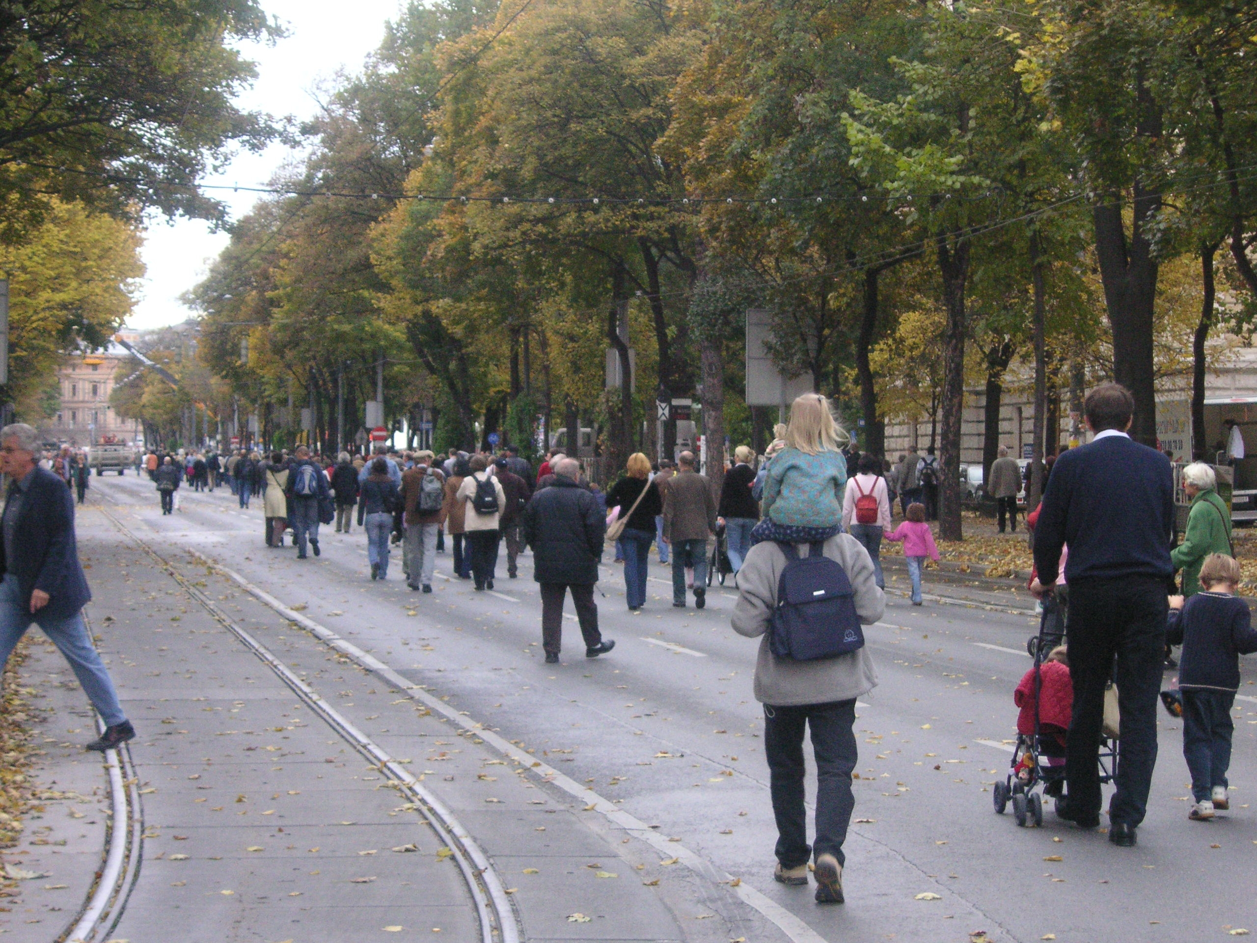 Universitätsring, Innere Stadt, Vienna, Austria. Photo taken by KF on October 26, 2005, Austria's national holiday.